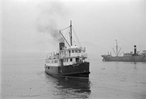 Steamship Cheakamus in Vancouver harbor, 1937